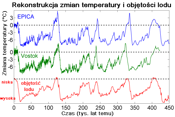 Expanded record of temperature change since the end of the last glacial period Extended record of climate change during the last 5 Myr This figure shows the Antarctic temperature changes during the last several glacial/interglacial cycles of the present ice age and a comparison to changes in global ice volume. The present day is on the left. The first two curves shows local changes in temperature at two sites in Antarctica as derived from deuterium isotopic measurements (δD) on ice cores (EPICA Community Members 2004, Petit et al. 1999). The final plot shows a reconstruction of global ice volume based on δ18O measurements on benthic foraminifera from a composite of globally distributed sediment cores and is scaled to match the scale of fluctuations in Antarctic temperature (Lisiecki and Raymo 2005). Note that changes in global ice volume and changes in Antarctic temperature are highly correlated, so one is a good estimate of the other, but differences in the sediment record do no necessarily reflect differences in paleotemperature. Horizontal lines indicate modern temperatures and ice volume. Differences in the alignment of various features reflect dating uncertainty and do not indicate different timing at different sites. The Antarctic temperature records indicate that the present interglacial is relatively cool compared to previous interglacials, at least at these sites. The Liesecki & Raymo (2005) sediment reconstruction does not indicate signifcant differences between modern ice volume and previous interglacials, though some other studies do report slightly lower ice volumes / higher sea levels during the 120 ka and 400 ka interglacials (Karner et al. 2001, Hearty and Kaufman 2000). It should be noted that temperature changes at the typical equatorial site are believed to have been significantly less than the changes observed at high latitude.